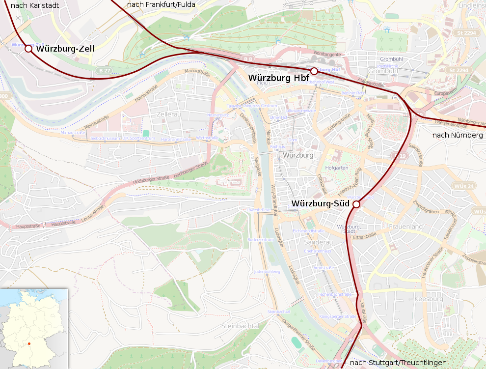 Map of the train stations in Würzburg